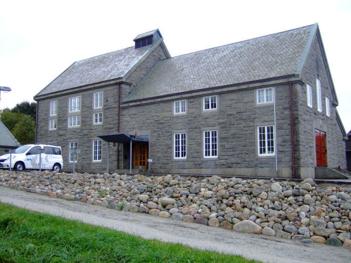 NRK Rogaland Head office in Stavanger